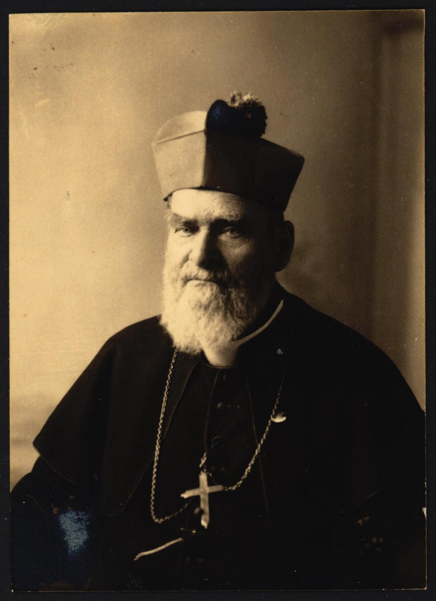 Archives New Zealand Reference: ACGO 8333 IA1 1349 / 15/11/16796